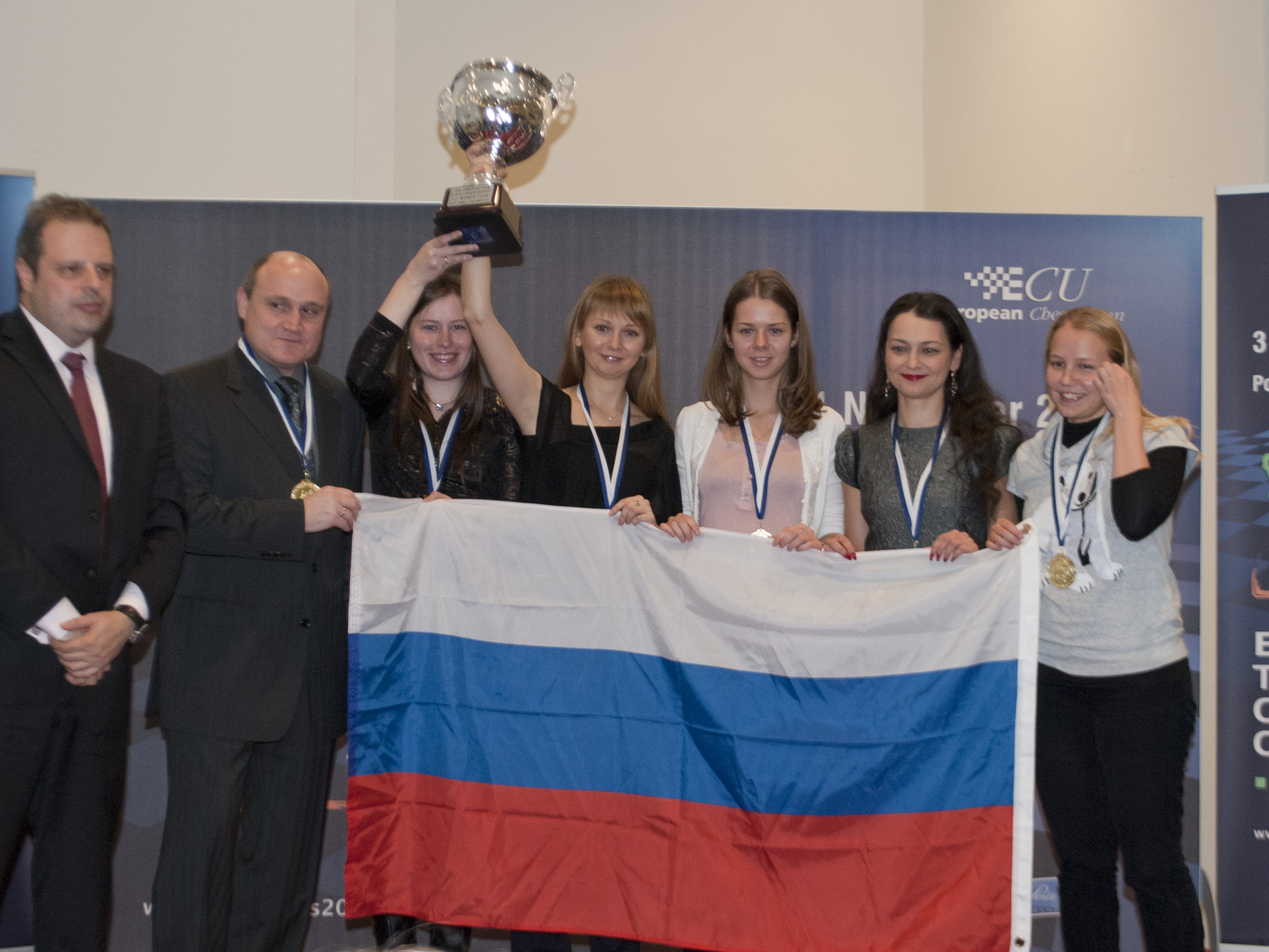 Porto Carras EchT 2011 - gold medal for Russian women's team. From left: Yuri Dokhoian (Captain), Nadezhda Kosintseva, Tatjana Kosintseva, Alexandra Kosteniuk & Valentina Gunina.